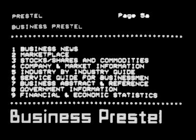 Description Page Prestel Date1981SourceOwn work by the original uploaderAuthorBernard MARTI Page Prestel